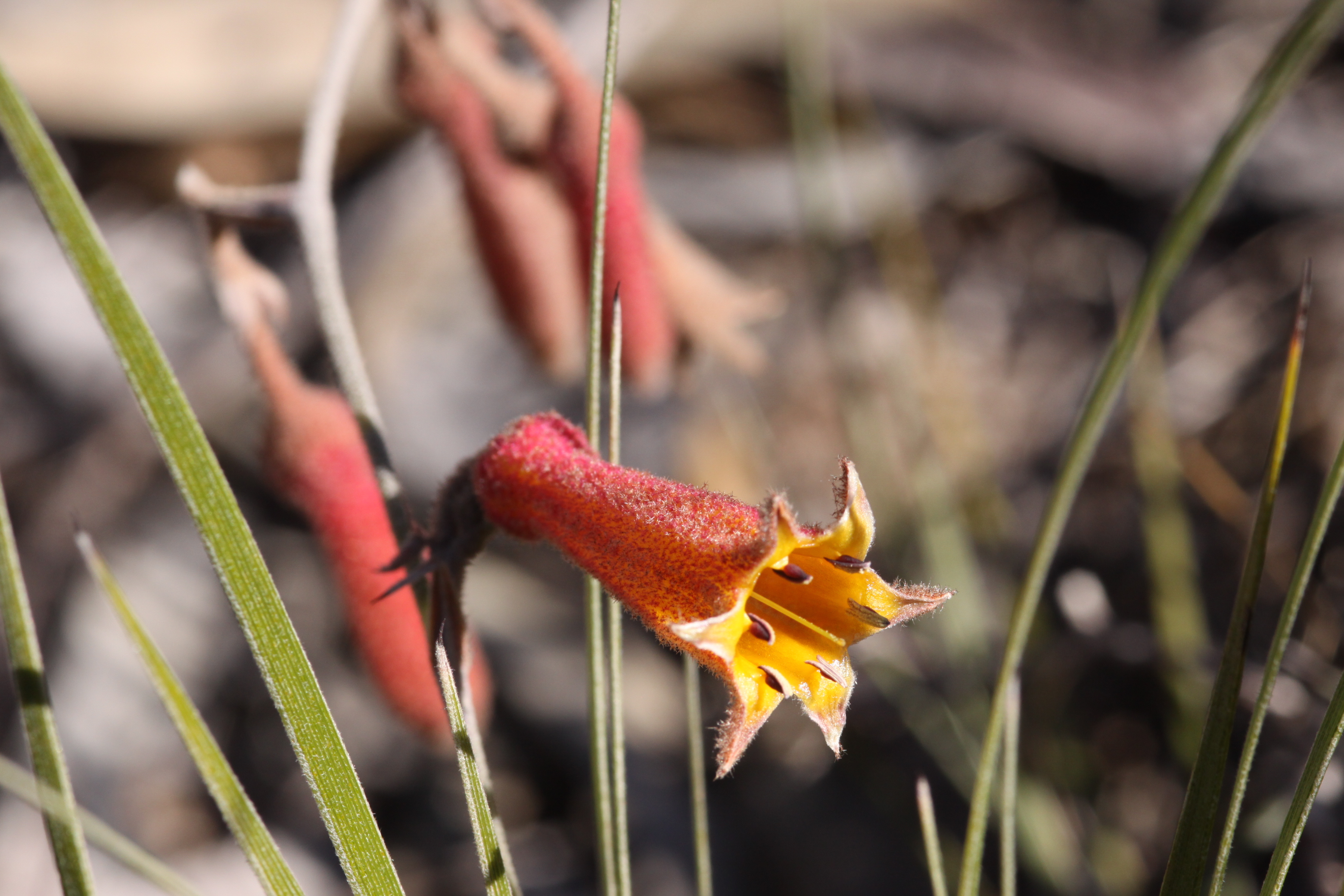 Winter Bell at Leseur National Park